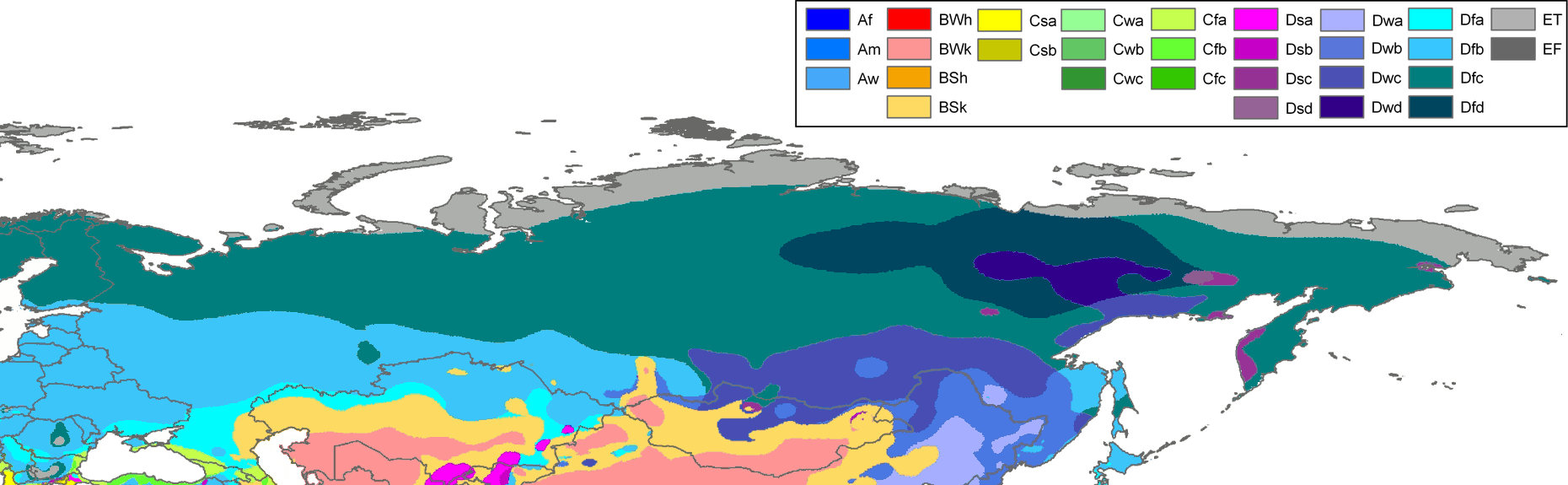 Climate map of Russia (from the "Updated world map of the Köppen-Geiger climate classification").